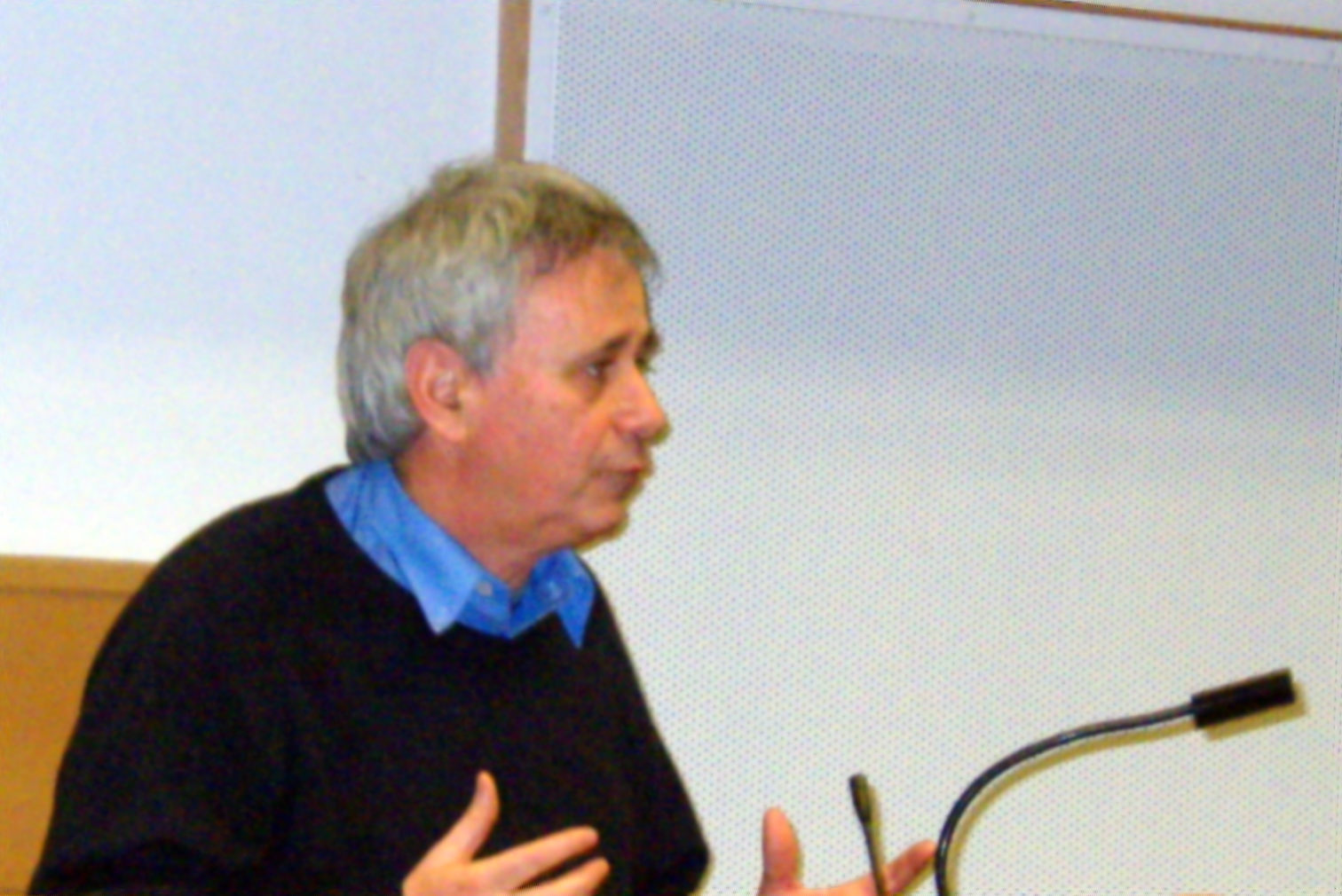 photo of Dr. Ilan Pappé taken with his permission during a lecture in Manchester Metropolitan University, UK. 17 January 2008